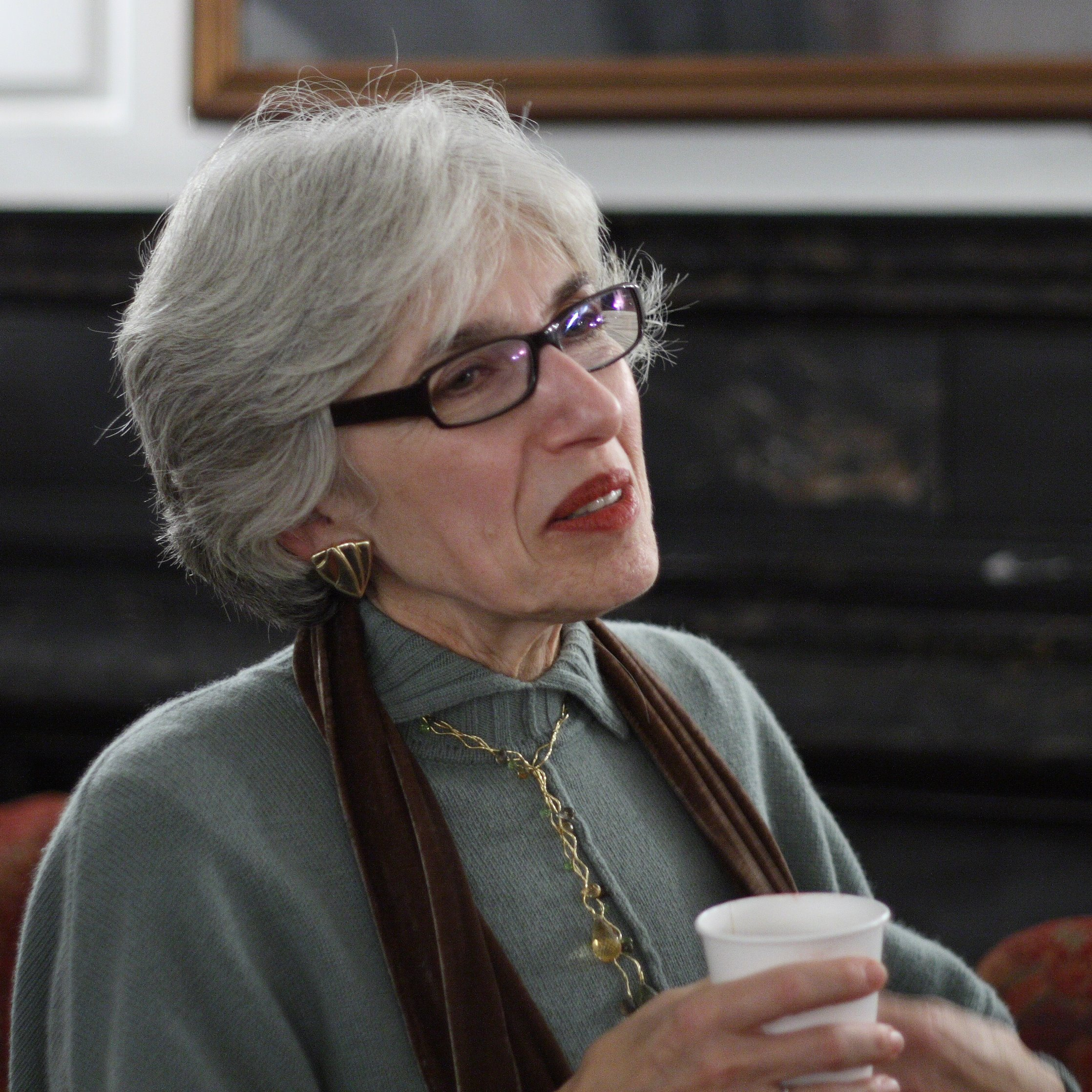 Author Dava Sobel at a Yale "Master's Tea" in Davenport College